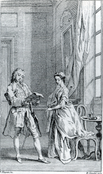 Illustration of Pamela: or, Virtue rewarded. In a series of Familiar Letters from a Beautiful Young Damsel to her Parents by Samuel Richardson (1741)